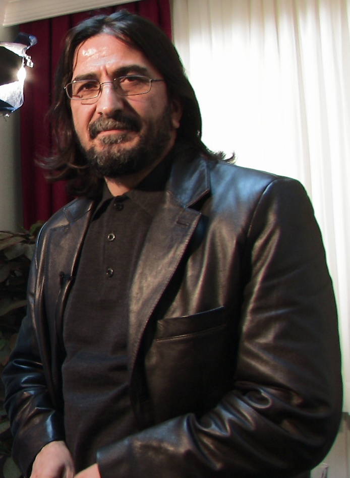 Nihat Genç